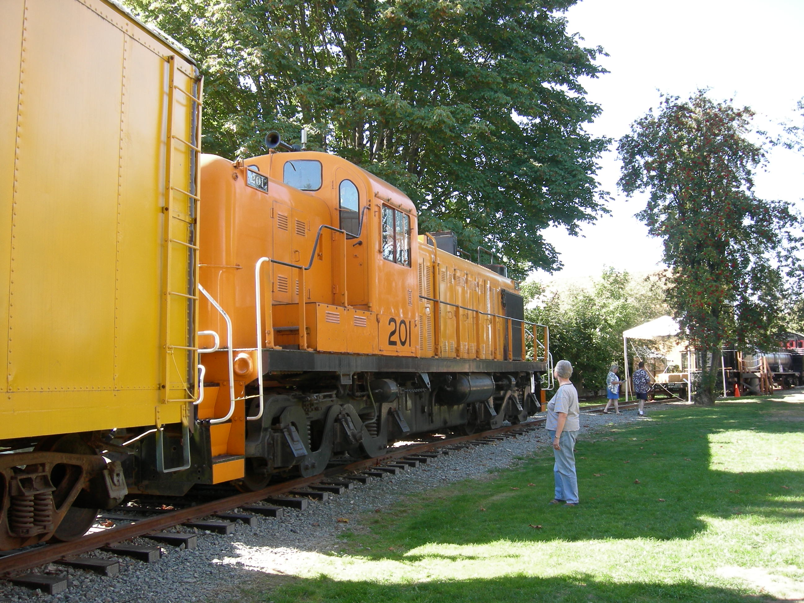 Kennecott Copper Corporation locomotive 201 on display at Snoqualmie Depot, Snoqualmie, Washington, USA. Built 1951 by ALCO, this is a model RSD-4 diesel-electric locomotive: a 12-cylinder diesel engine drives an electric generator.